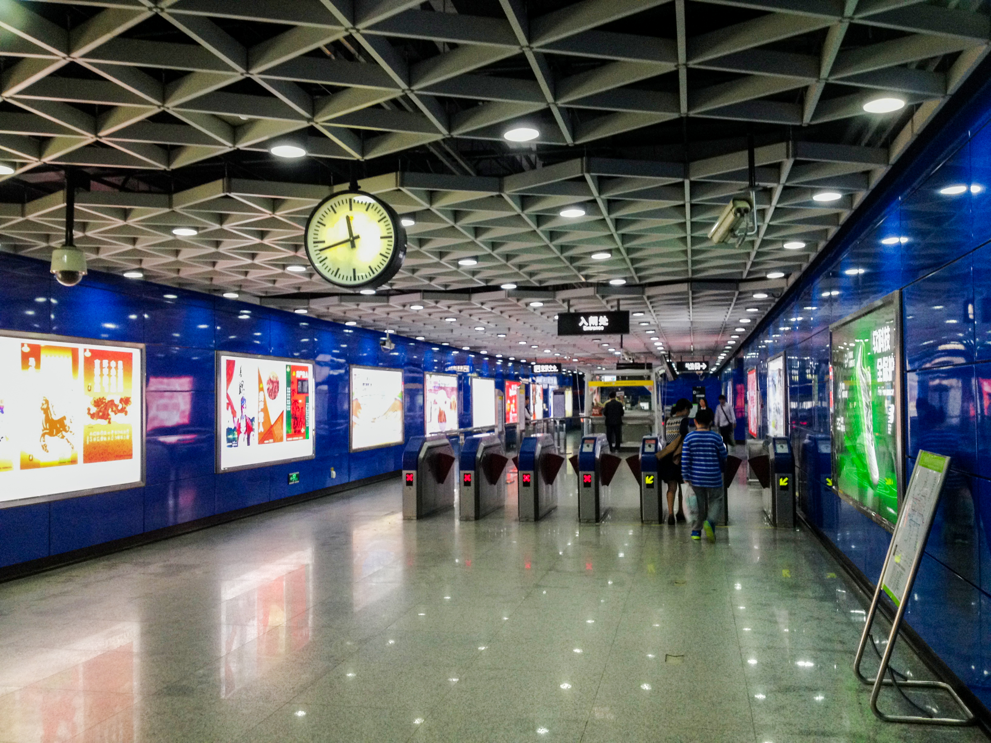 Station Concourse for Xiaobei Station, Guangzhou Metro 粵語: 廣州地鐵，小北站嘅站廳。